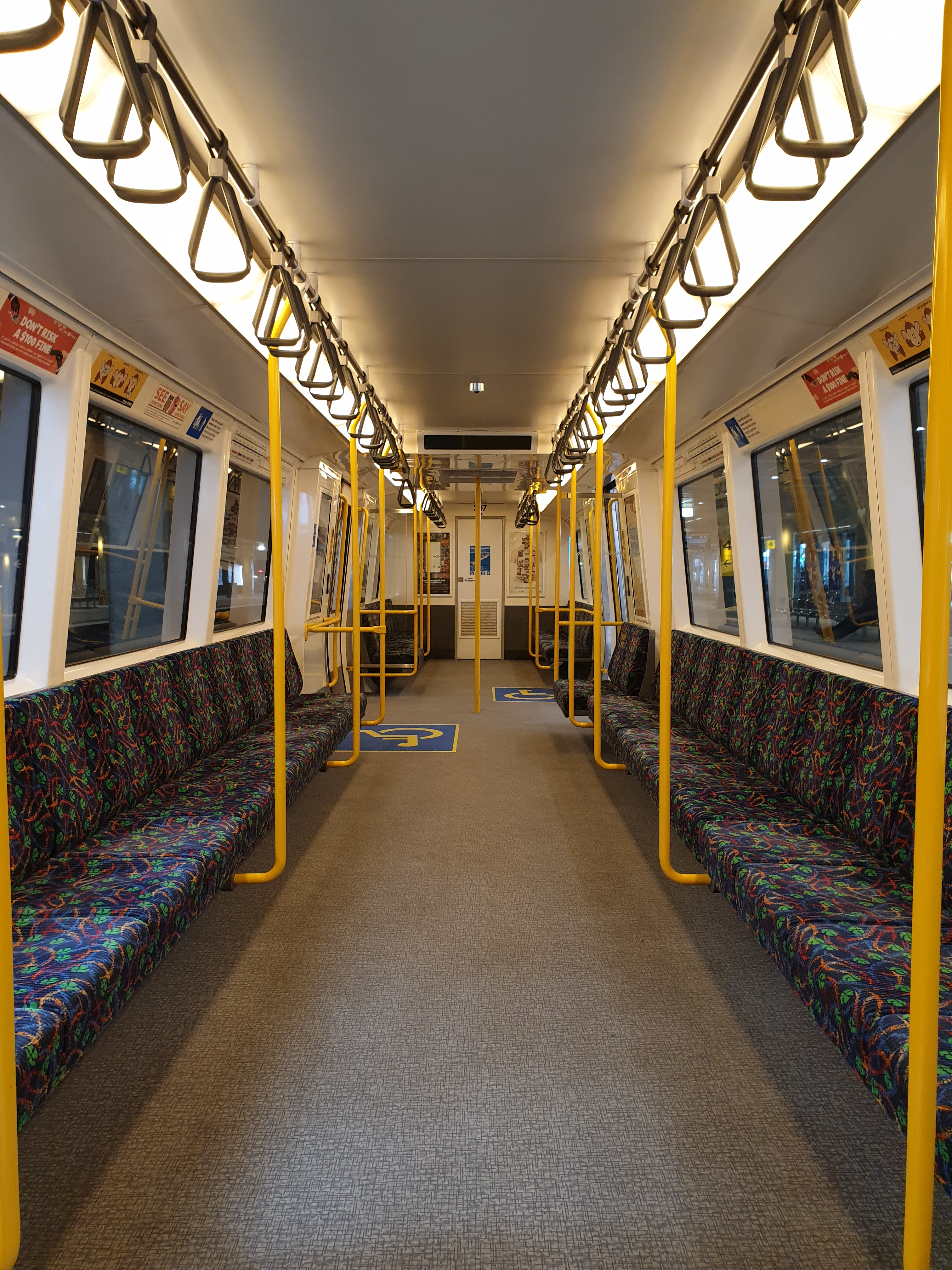 Inside Transperth trains